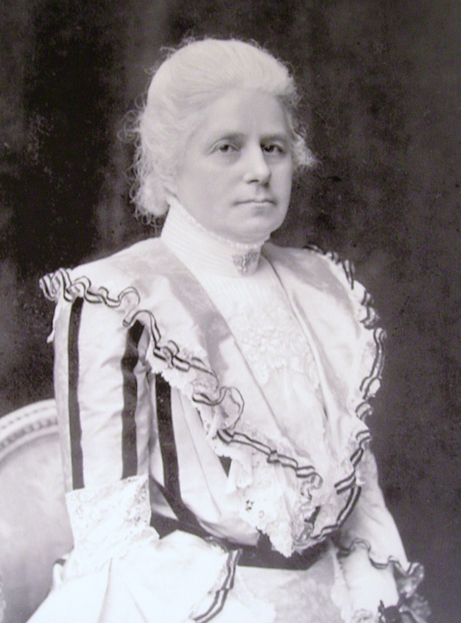 Picture of Wilhelmina von Hallwyl, around 1902, Swedish woman